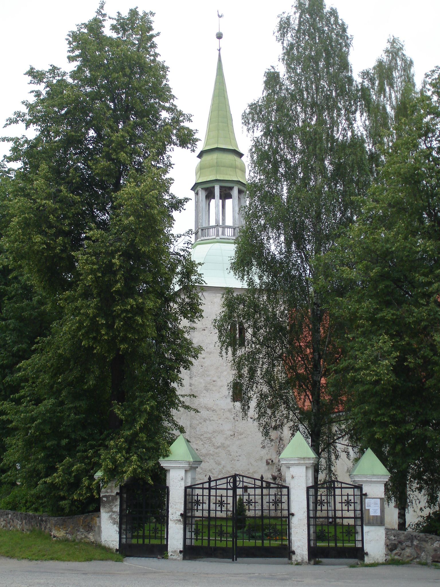 Rauna church. Latvia.